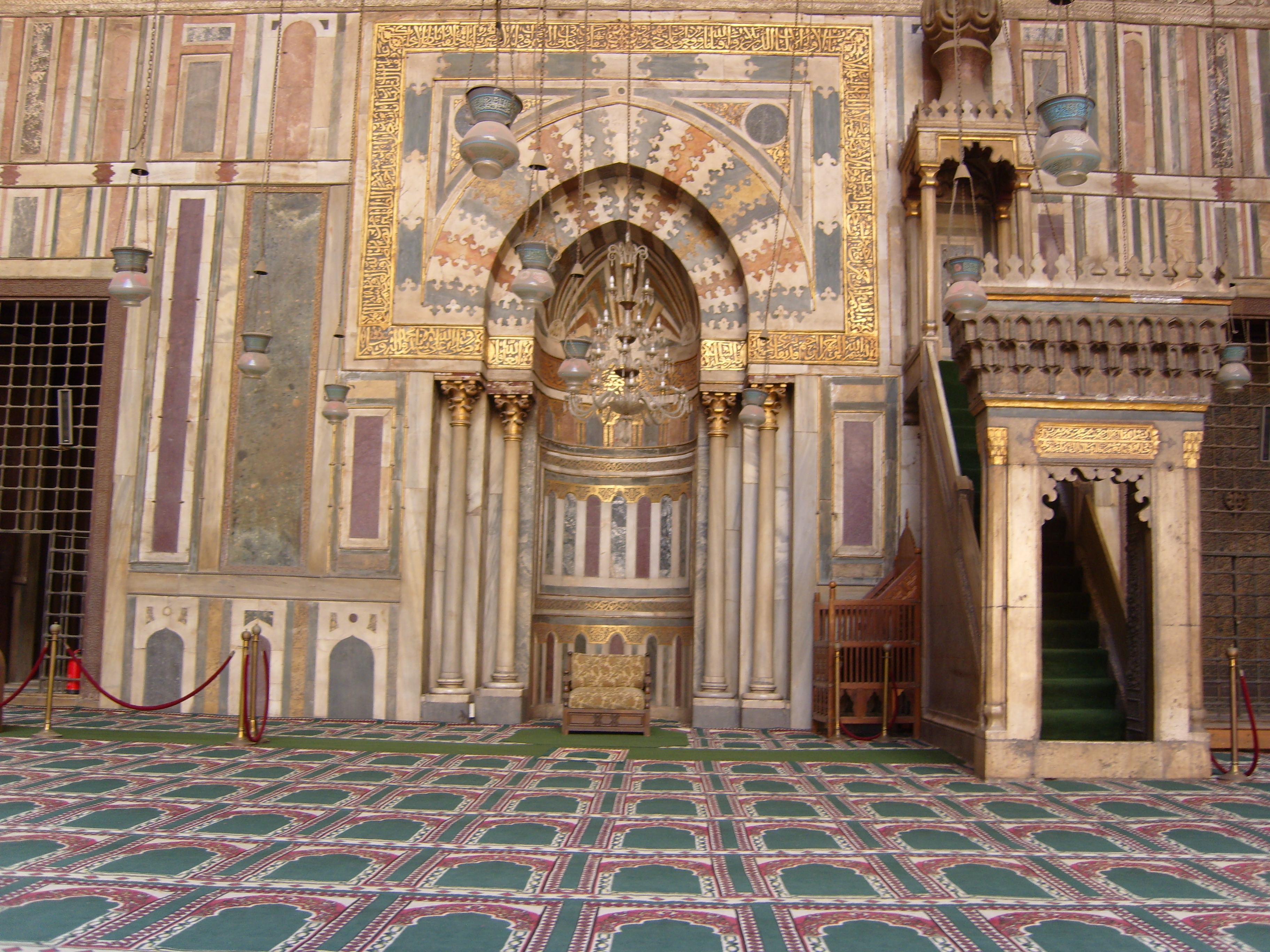 The inside of the Sultan Hasan Mosque in Cairo. View of the front inside.